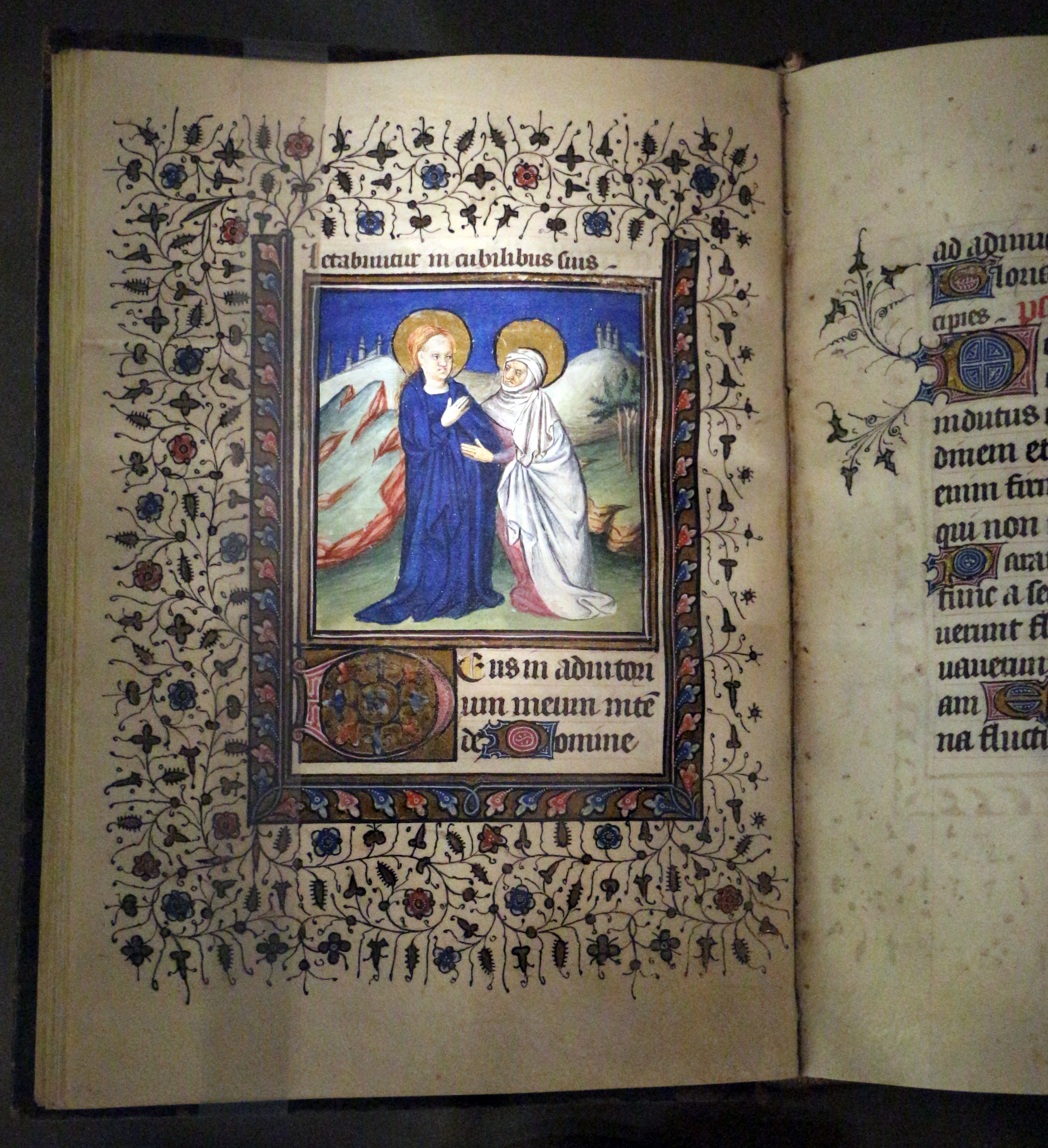 Biblioteca trivulziana (Milan)